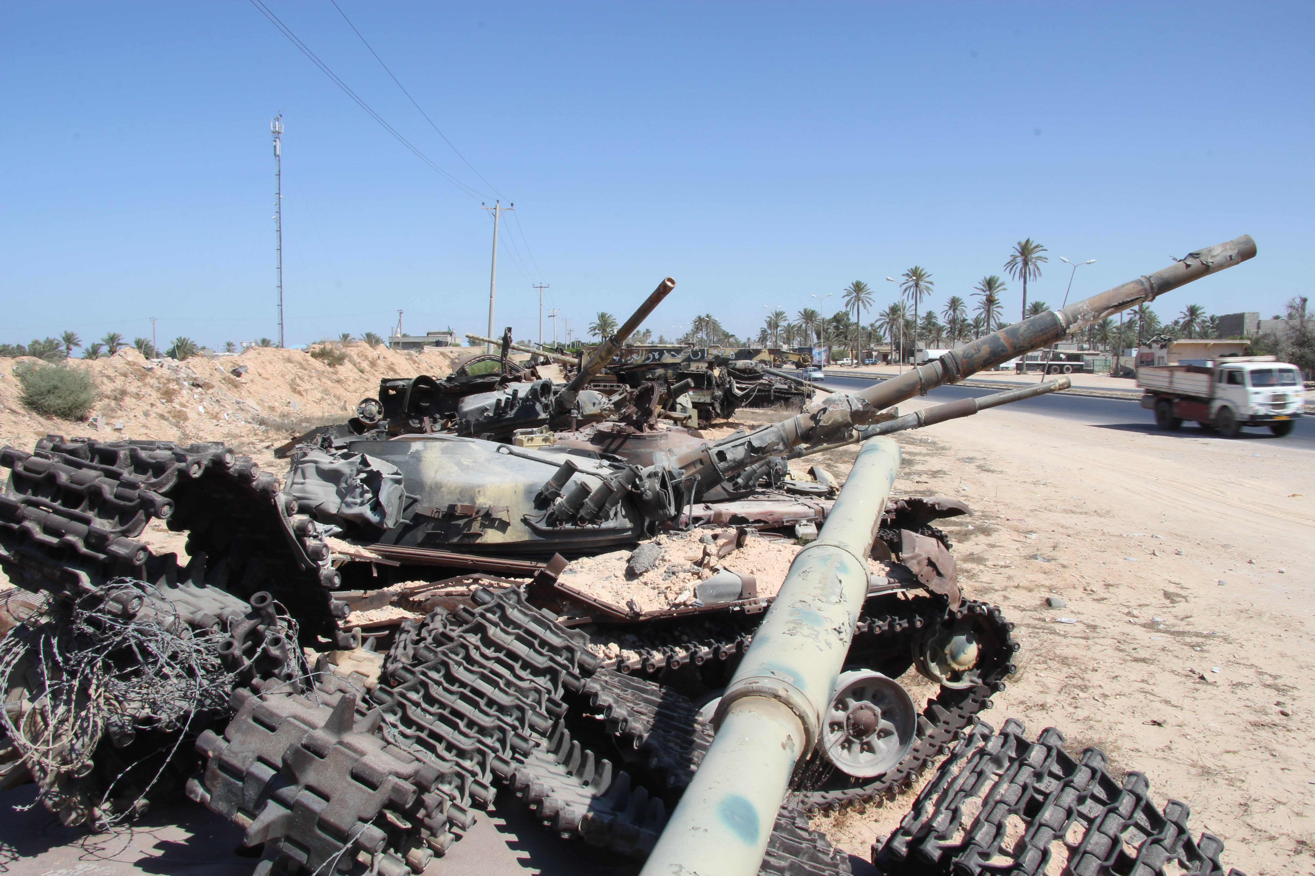 Tanks outside of Misrata (10)